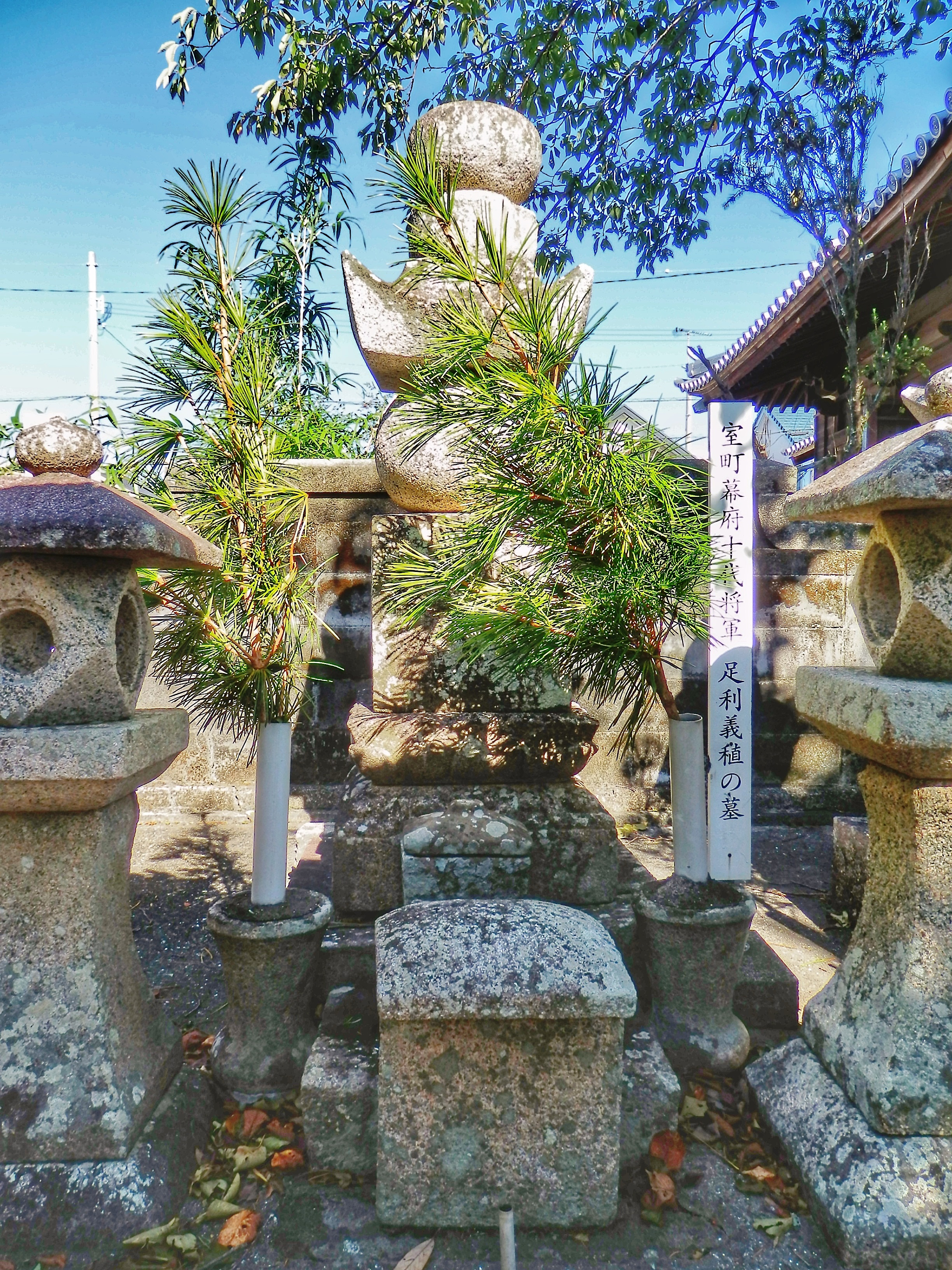 The tomb of Ashikaga Yoshitane, in Saikō-ji, Anan, Tokushima, Japan